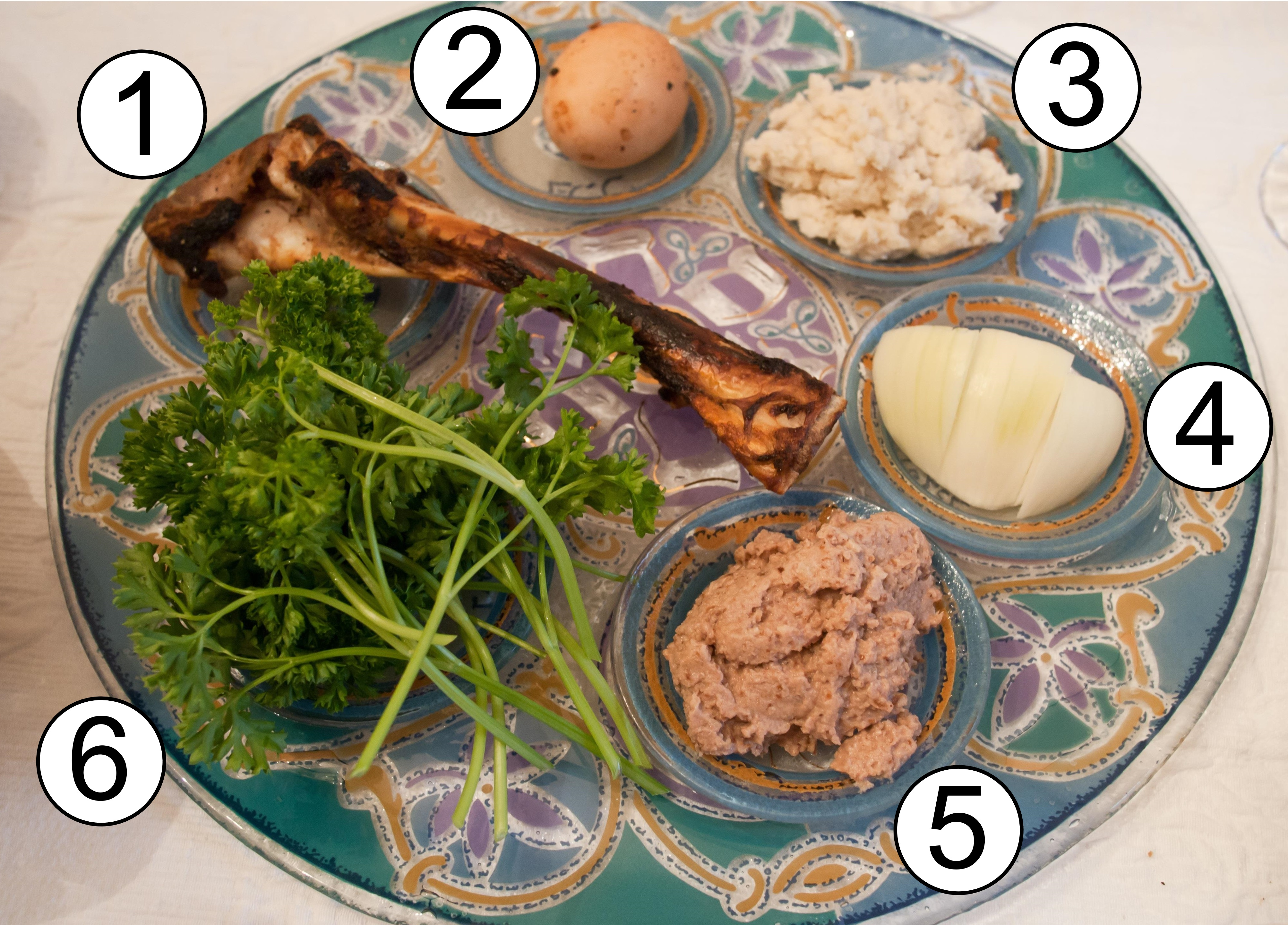 Passover Seder plate. Categories, with imaged examples in parentheses:1. Zeroah (shankbone)2. Beitzah (a roasted hard-boiled egg)3. Maror/Chazeret (horseradish)4. 'Karpas (onion)5. Charoset6. Maror/Chazeret (parsley).